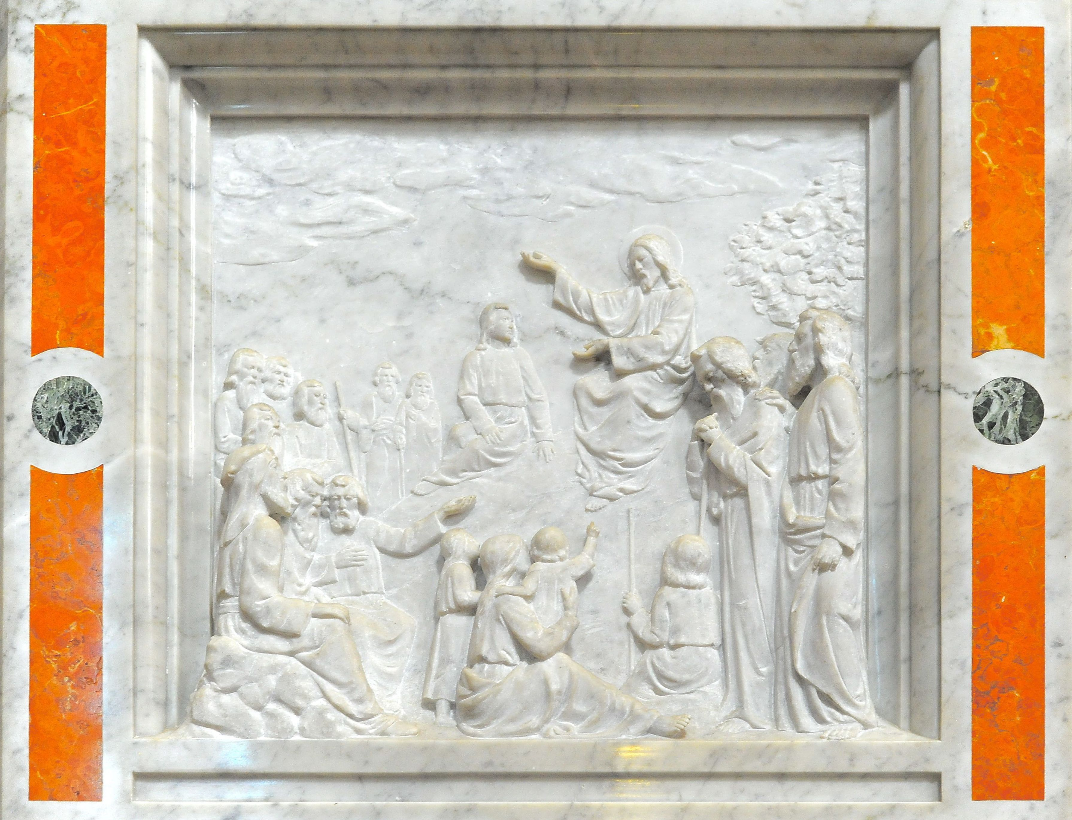 Pulpit in the parish and pilgrimage church Saint Veit in Brezje, municipality Radovljica / Upper Carniola / Slovenia / EU